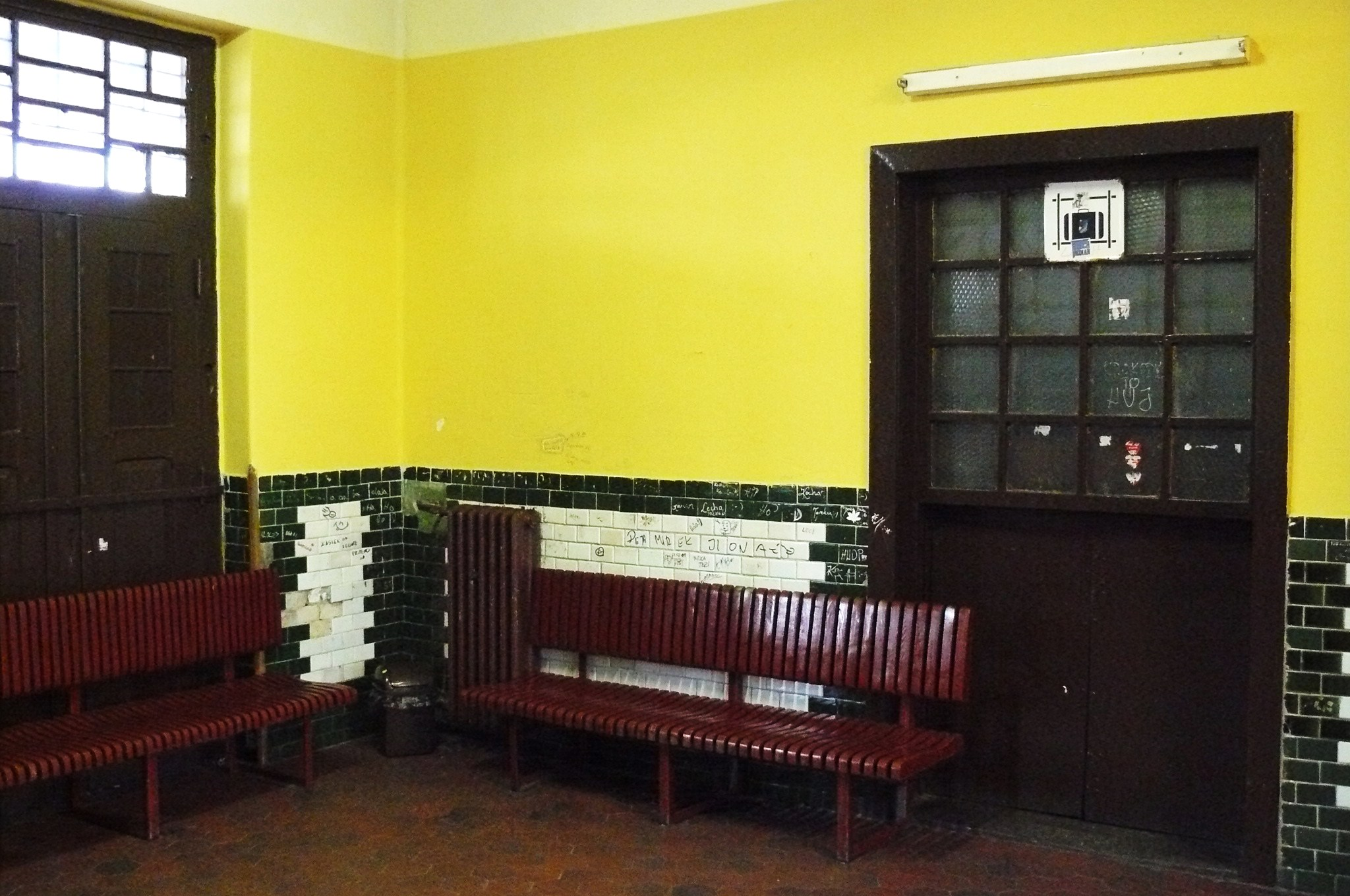 Trzcianka - railway station. Interior.